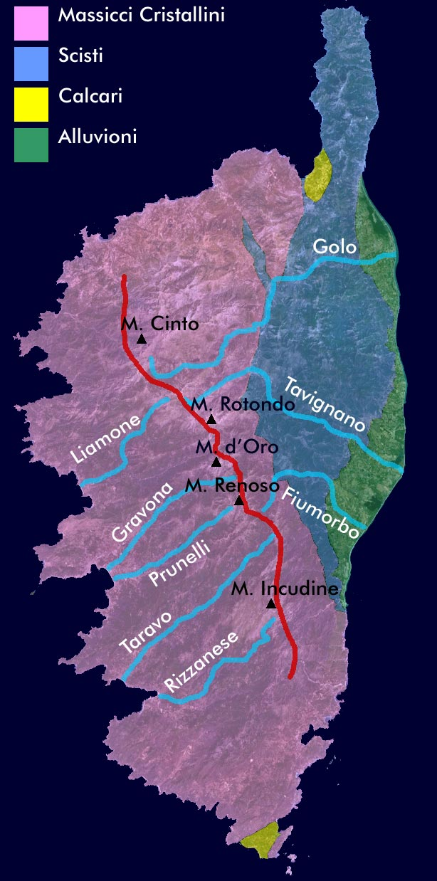 Geological Map of Corsica, including the major peaks, rivers and, marked in red, the watershed of the main montain chain. Created by myself based on a satellite image acquired through NASA World Wind 1.3.